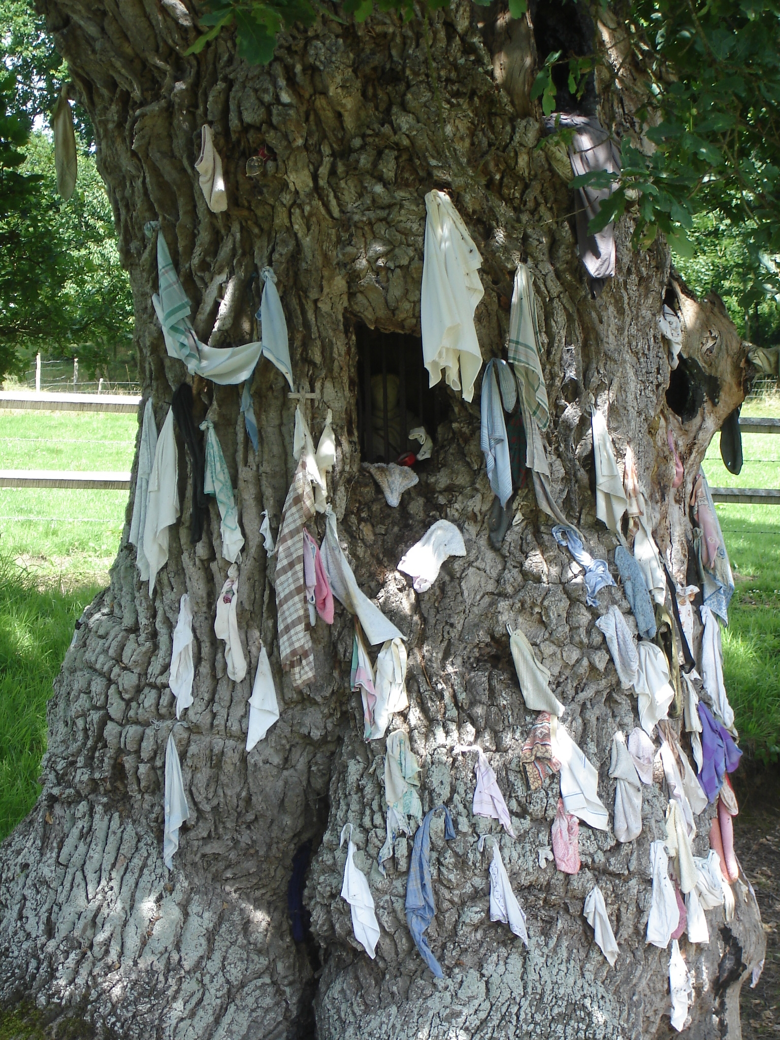 Oak of Saint-Méen: the miraculous source of Saint-Méen (Calvados), which is located near this tree, cures skin deseases. The sore must be cleaned with a tissue soaked with water, and requests must be addressed to Saint-Méen. The tissue is then hung to the thousand old oak. A sculpture of Saint-Méen is located inside a cavity of the tree